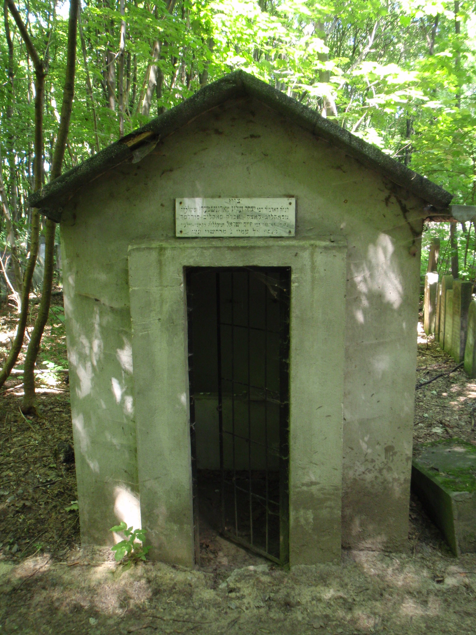 Ohel of Icchak Zelig Morgenstern